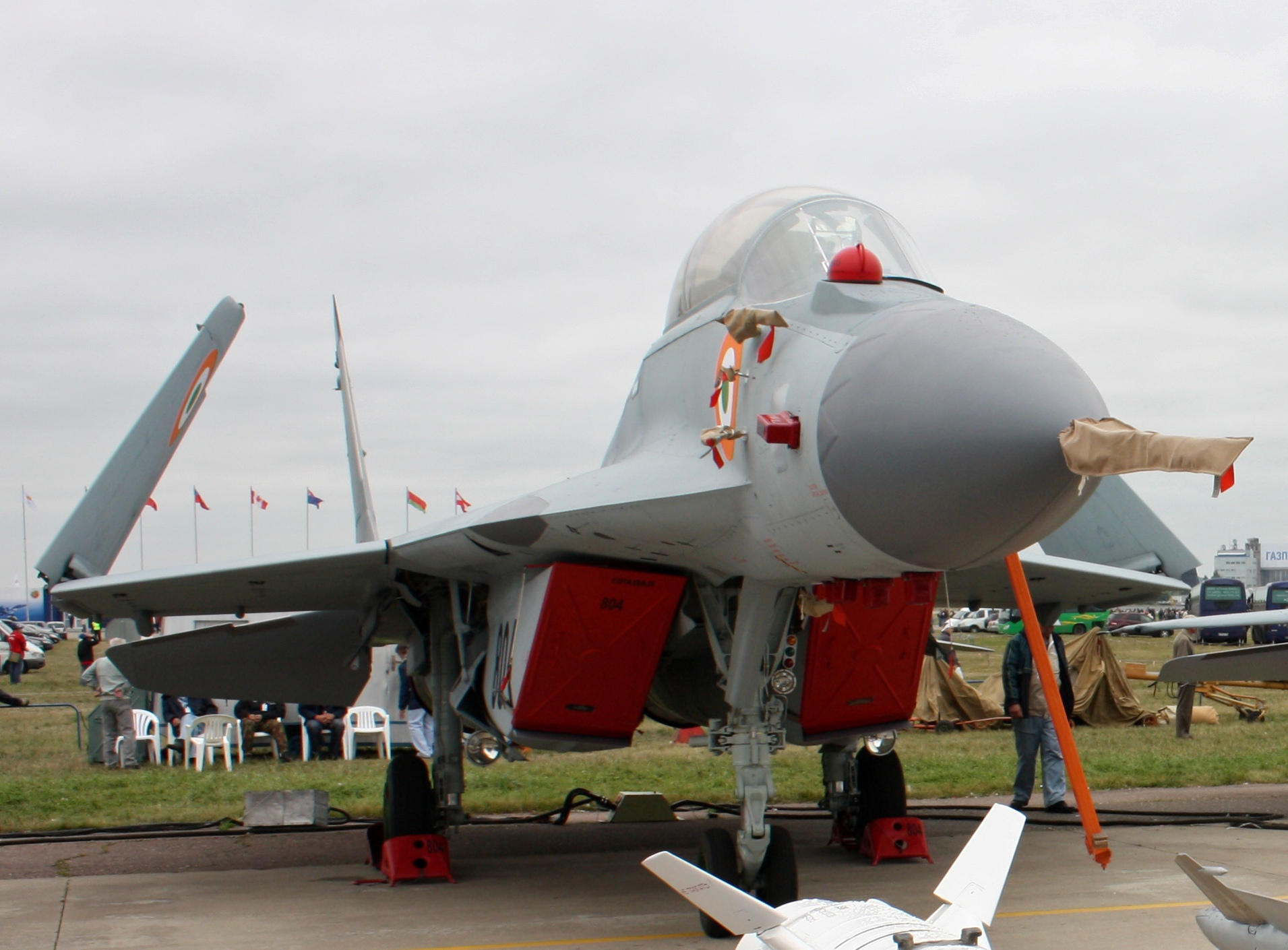 MiG-29K, was drastically modified from the Mikoyan MiG-29M while retaining the same basic configuration. For carrier operations, the airframe, undercarriage, and arrestor hook were strengthened, folding wings and catapult attachments were added, and the landing gear widened.